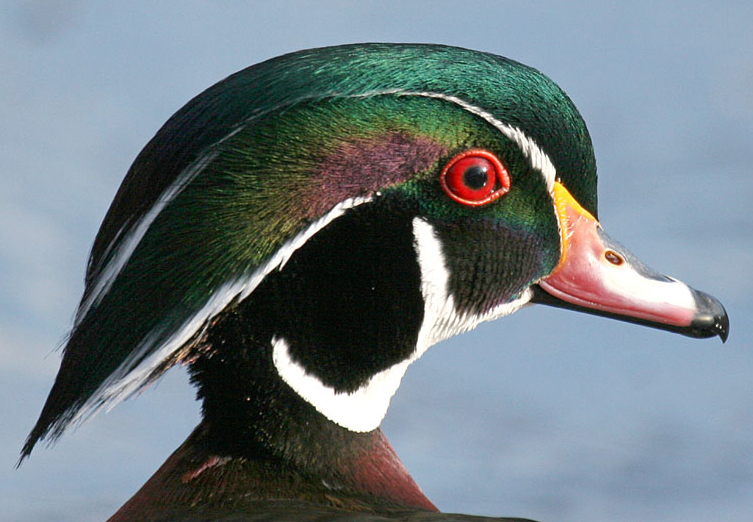 Close-up of the head of a Wood Duck Aix sponsa, Massachusetts